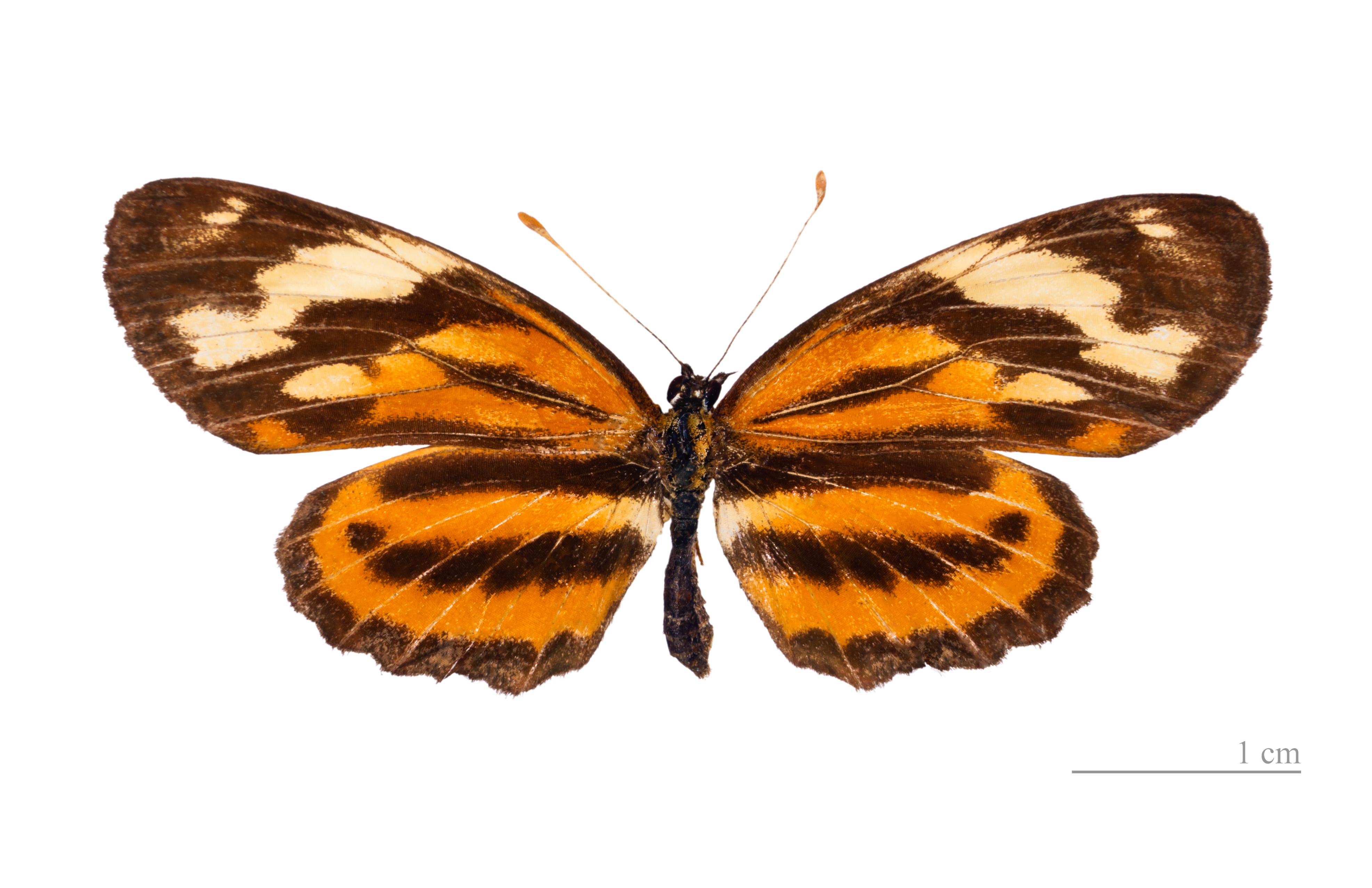 ♂ - Dorsal side Locality : Cacao, Crique Baguot, French Guiana.